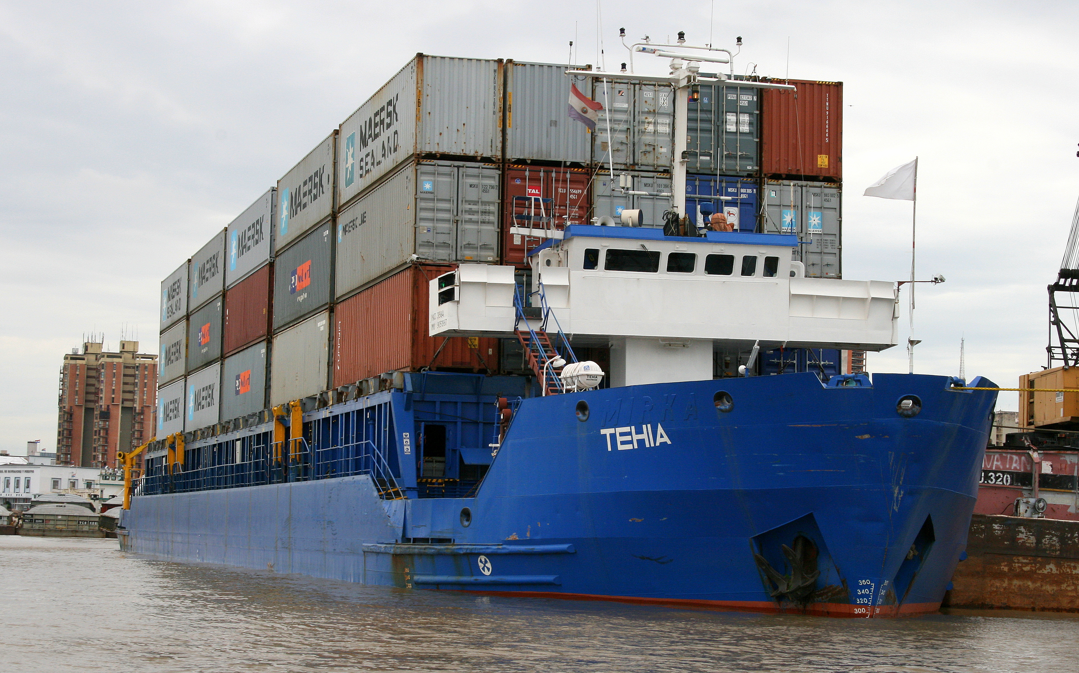 Barco en la Bahía de Asunción